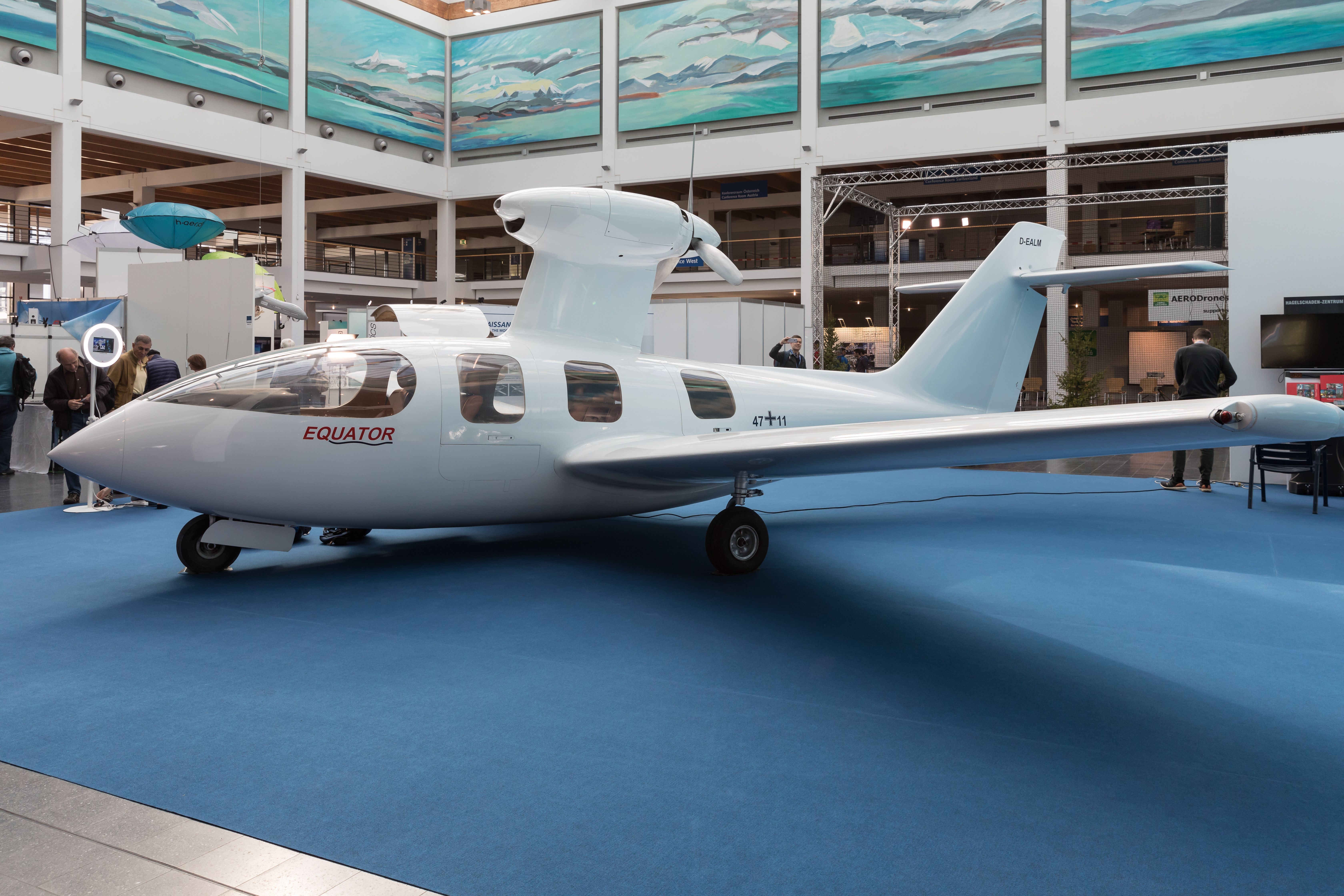 Seaplane Pöschel Equator at AERO Friedrichshafen 2018